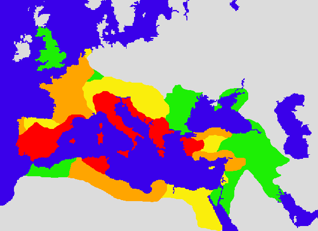 The extent of the Roman Empire in around 133 BC (red), 44 BC (orange), 14 AD (yellow), and 117 AD (green).